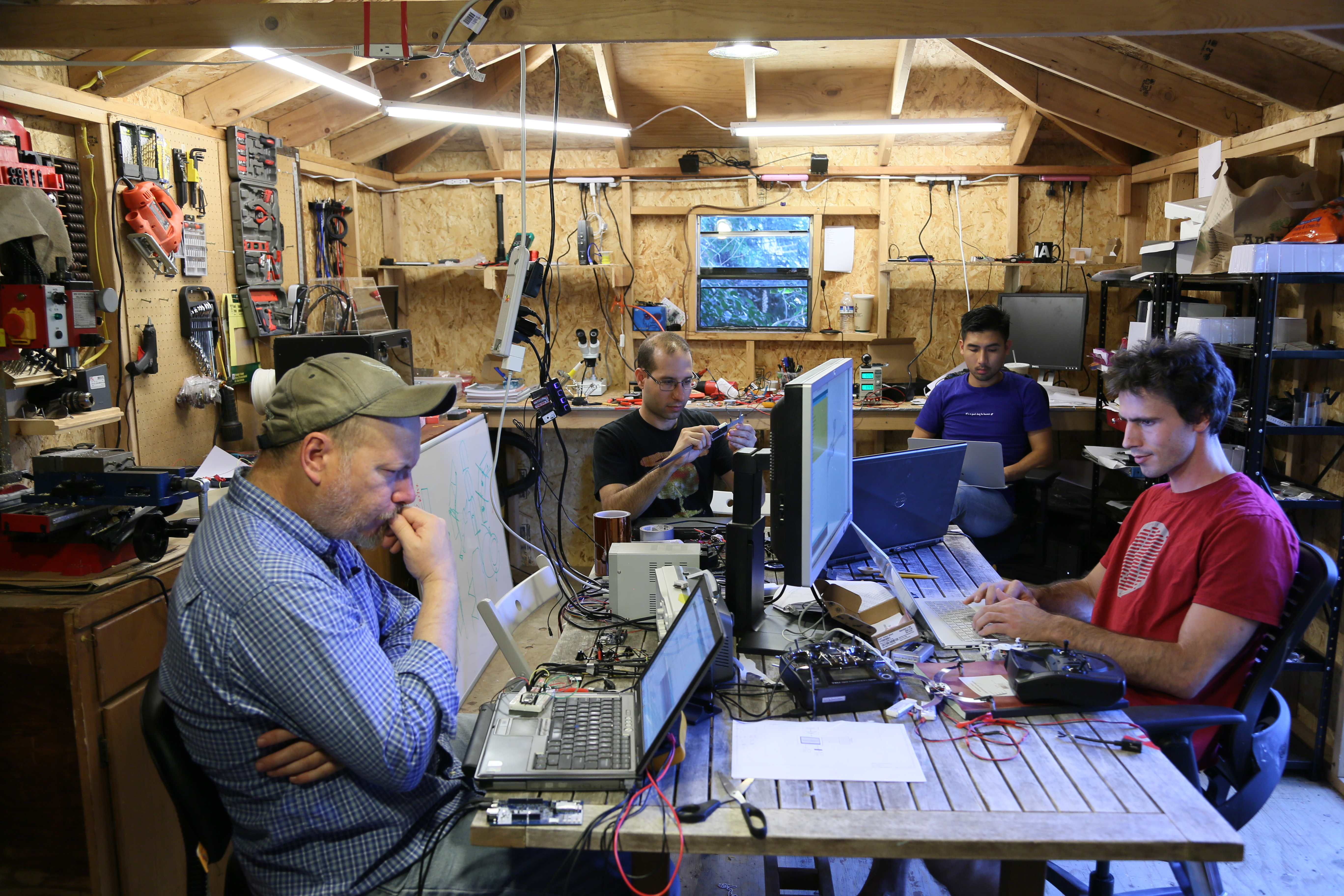 Picture of the workshop where Nixie is being developed.